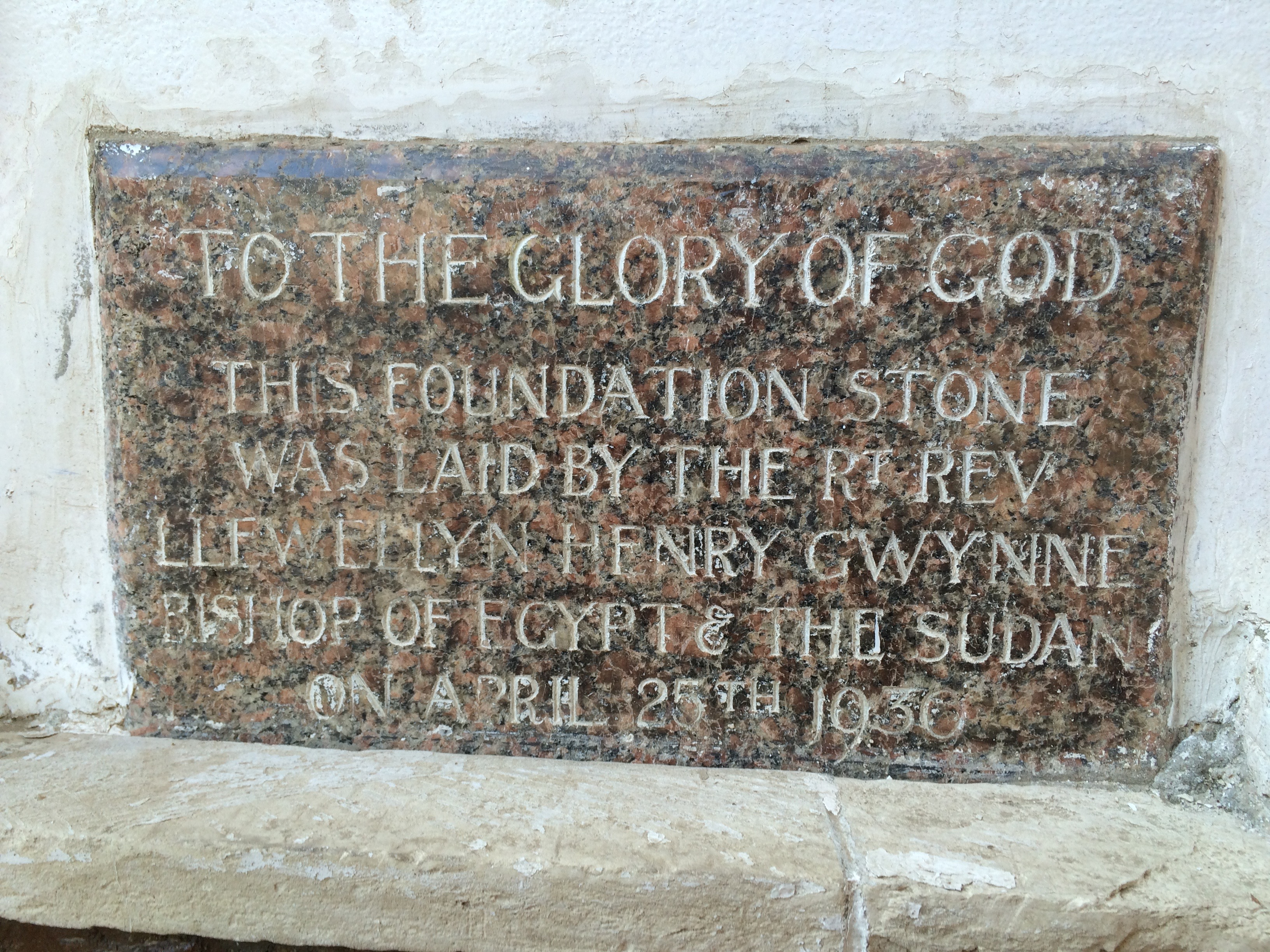 Made of Aswan red granite placed on St. Mark's day